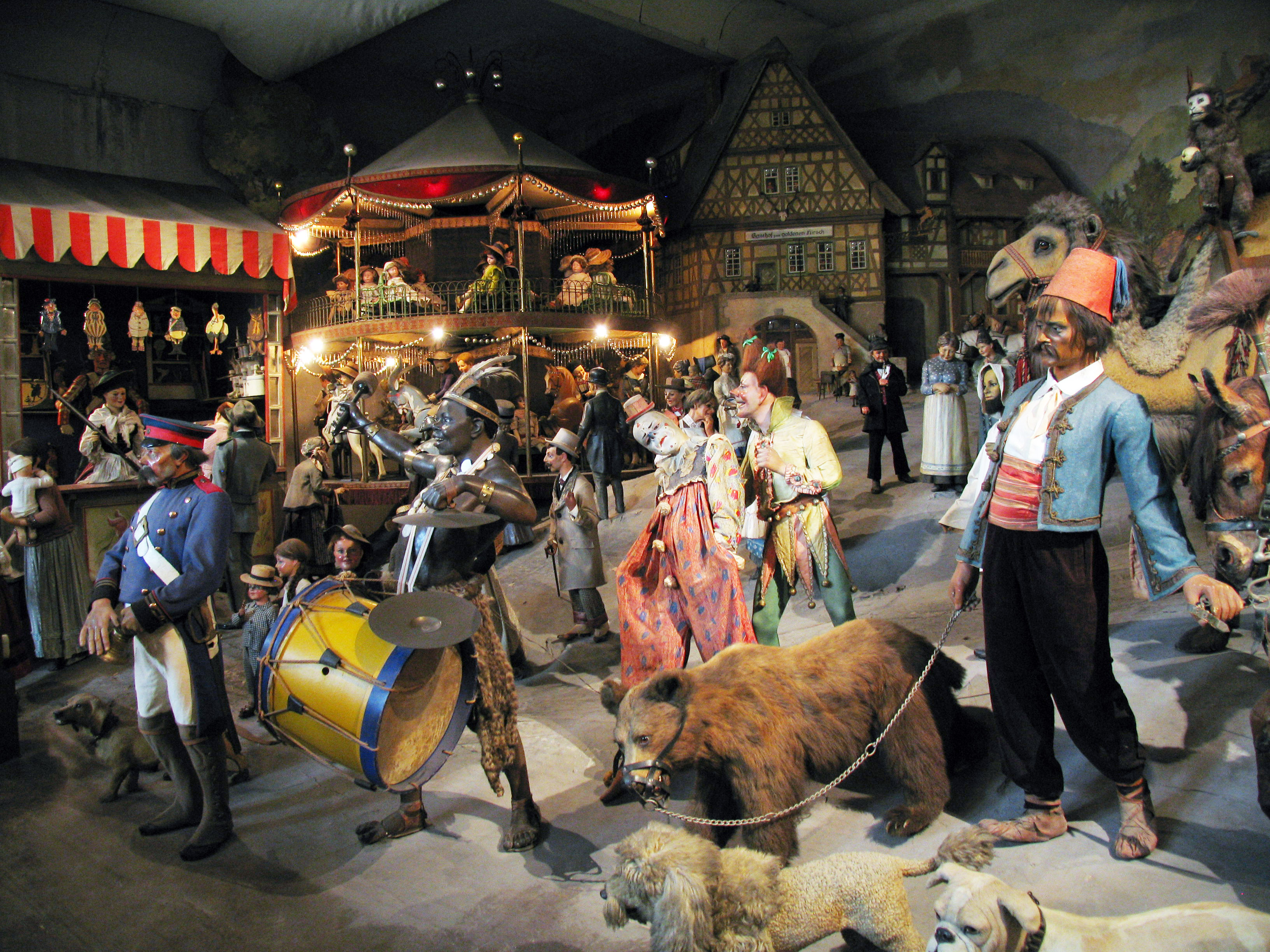 German Toy Museum Sonneberg, Diorama “Thueringer Kirmes”, a Thuringian church fair (1910)